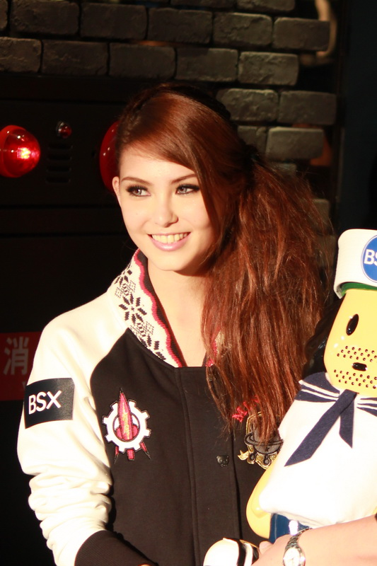 Hannah Quinlivan